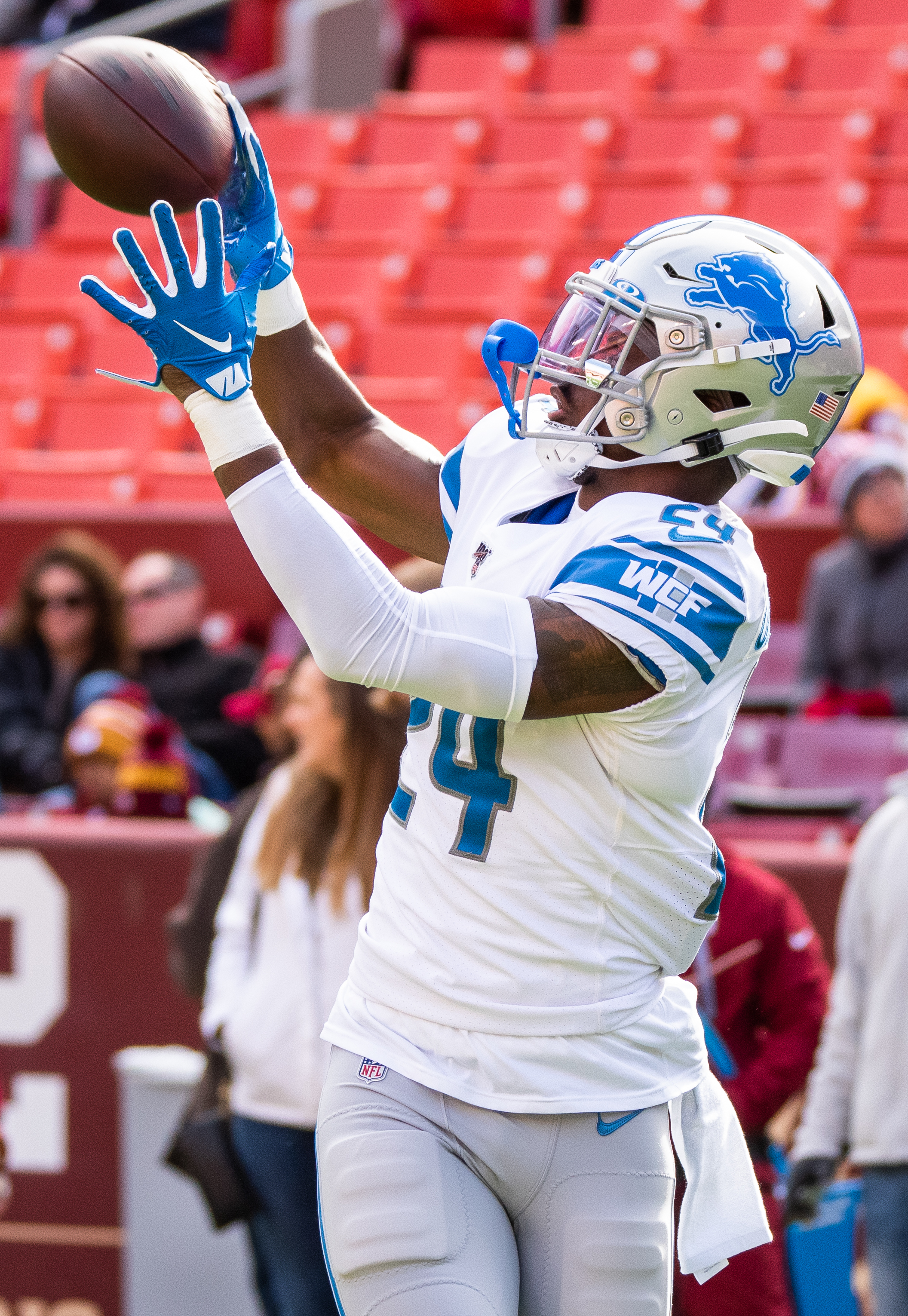 In 2019